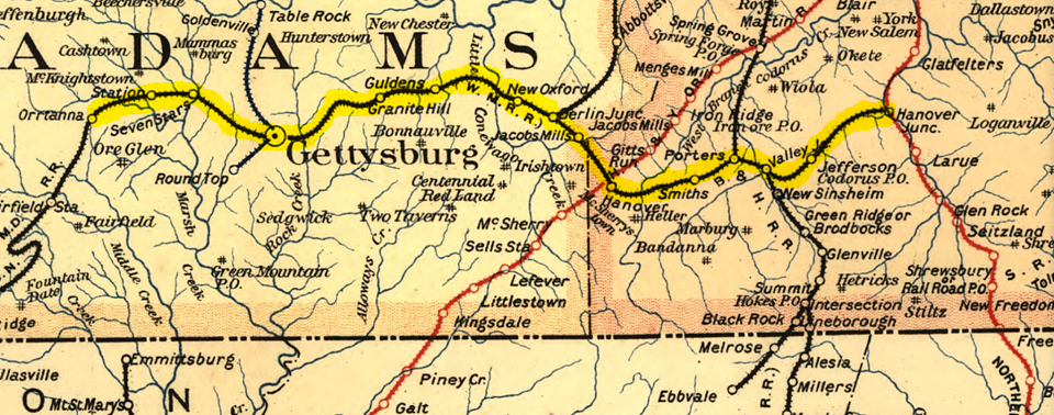 Map of Hanover Junction, Hanover and Gettysburg Railroad. Chartered in 1874 as a merger of the Hanover Branch Railroad and the Susquehanna, Gettysburg & Potomac Railway. Later controlled and acquired by the Western Maryland Railway (as indicated on this 1895 map). Original map cropped and HJH&G rail line highlighted.